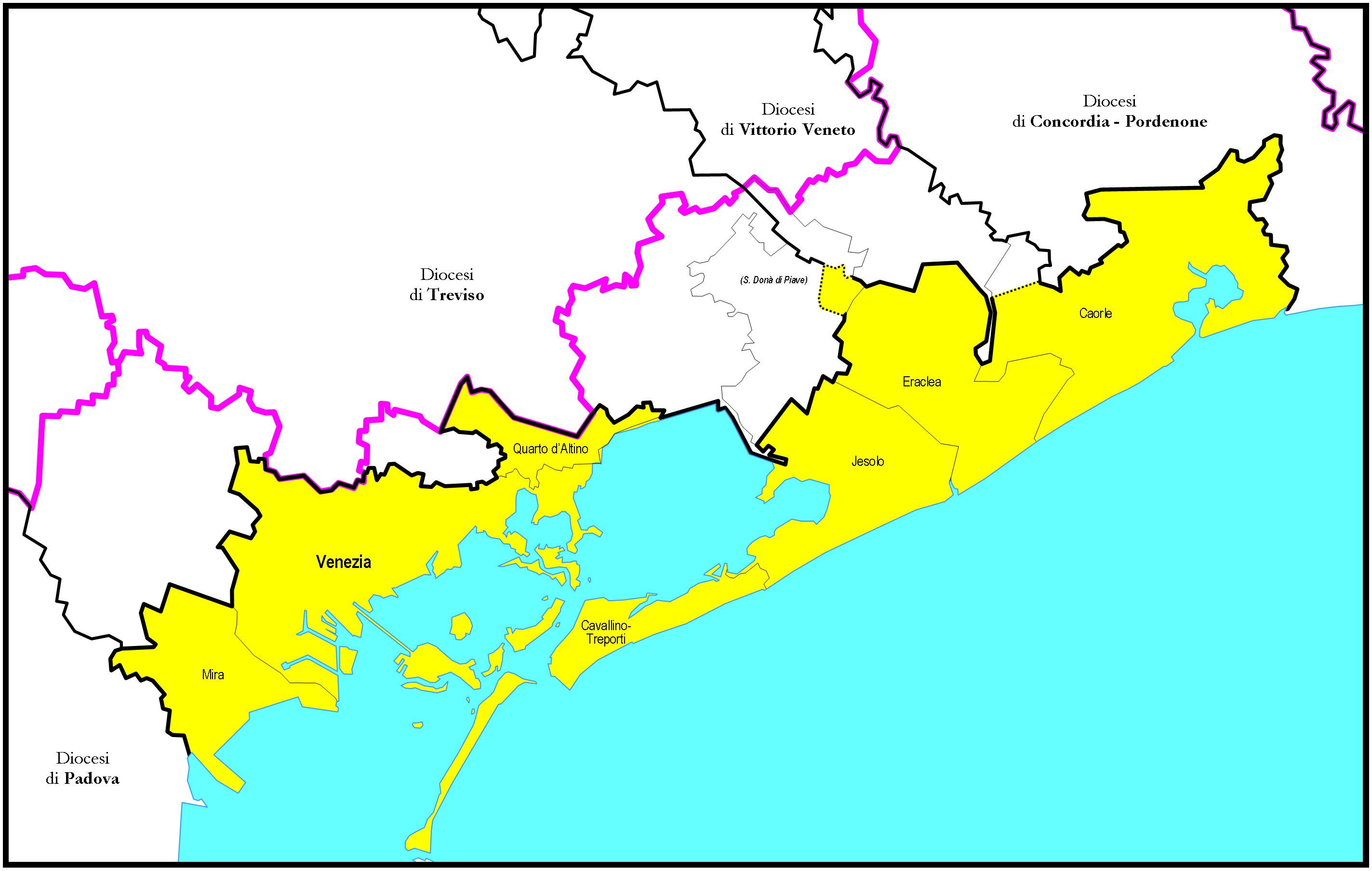 Map of Venice's Diocese